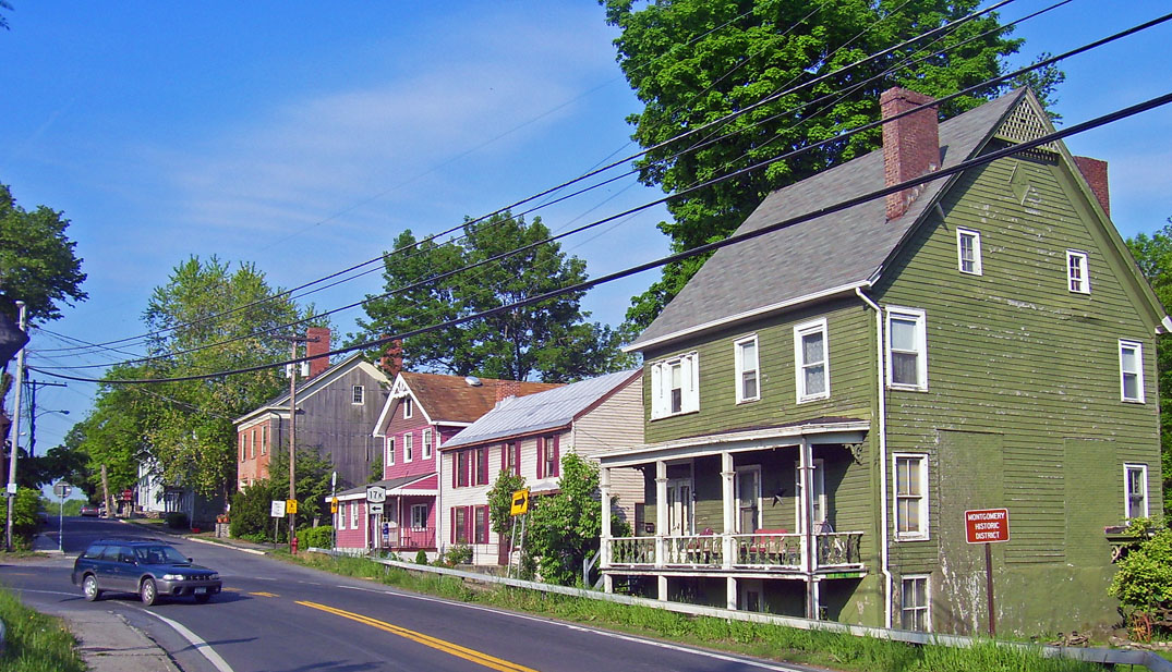 Photographed by Daniel Case 2007-05-23